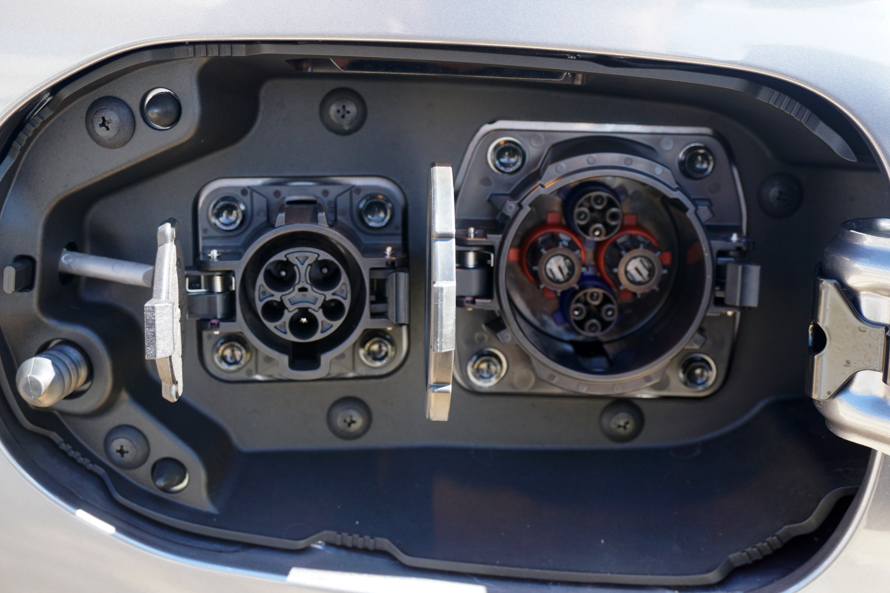 Regular (left) and quick (right) charging ports 2014 Mitsubishi Outlander P-HEV